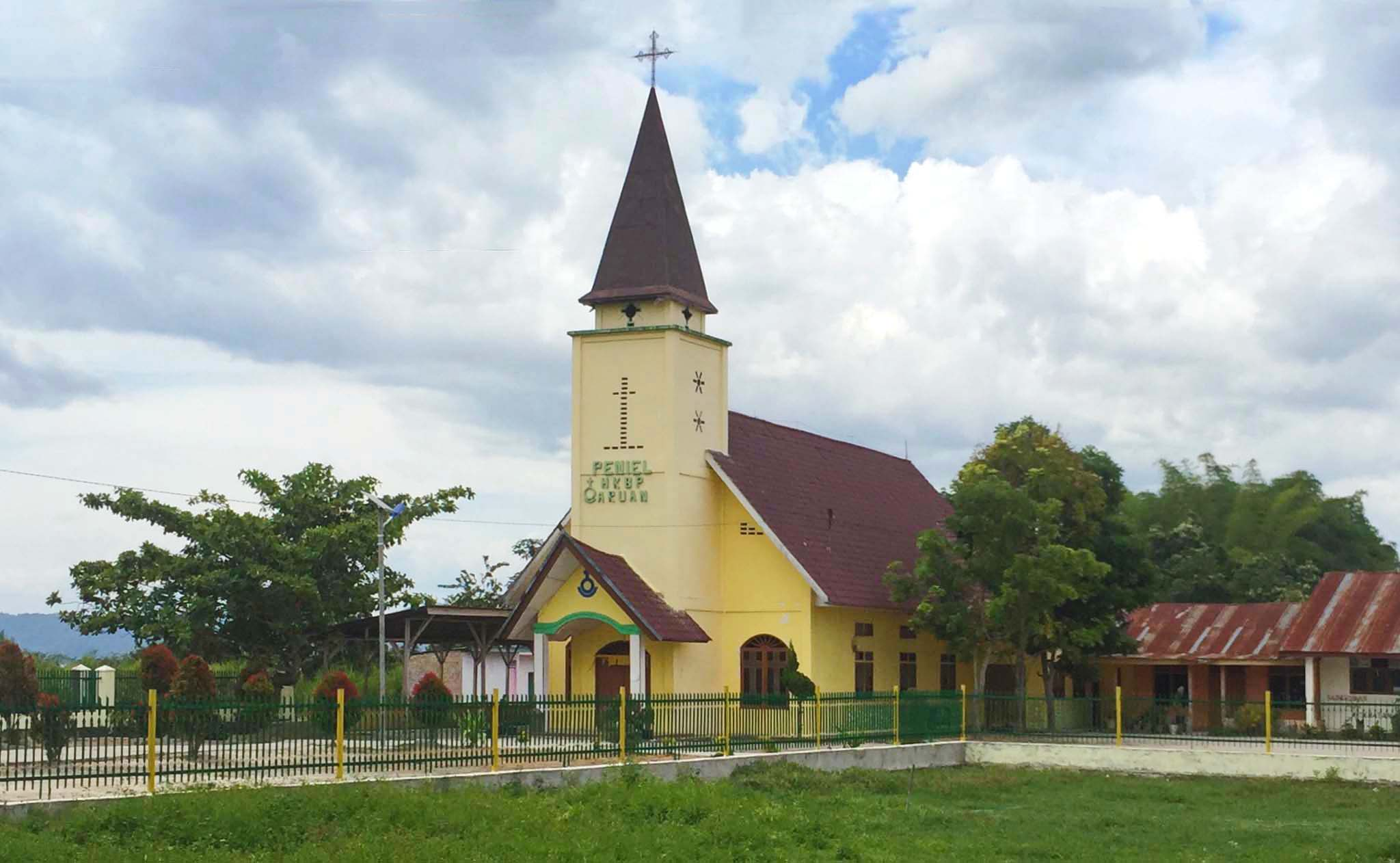 HKBP Peniel Aruan, Church in Aruan, Laguboti, Toba Samosir